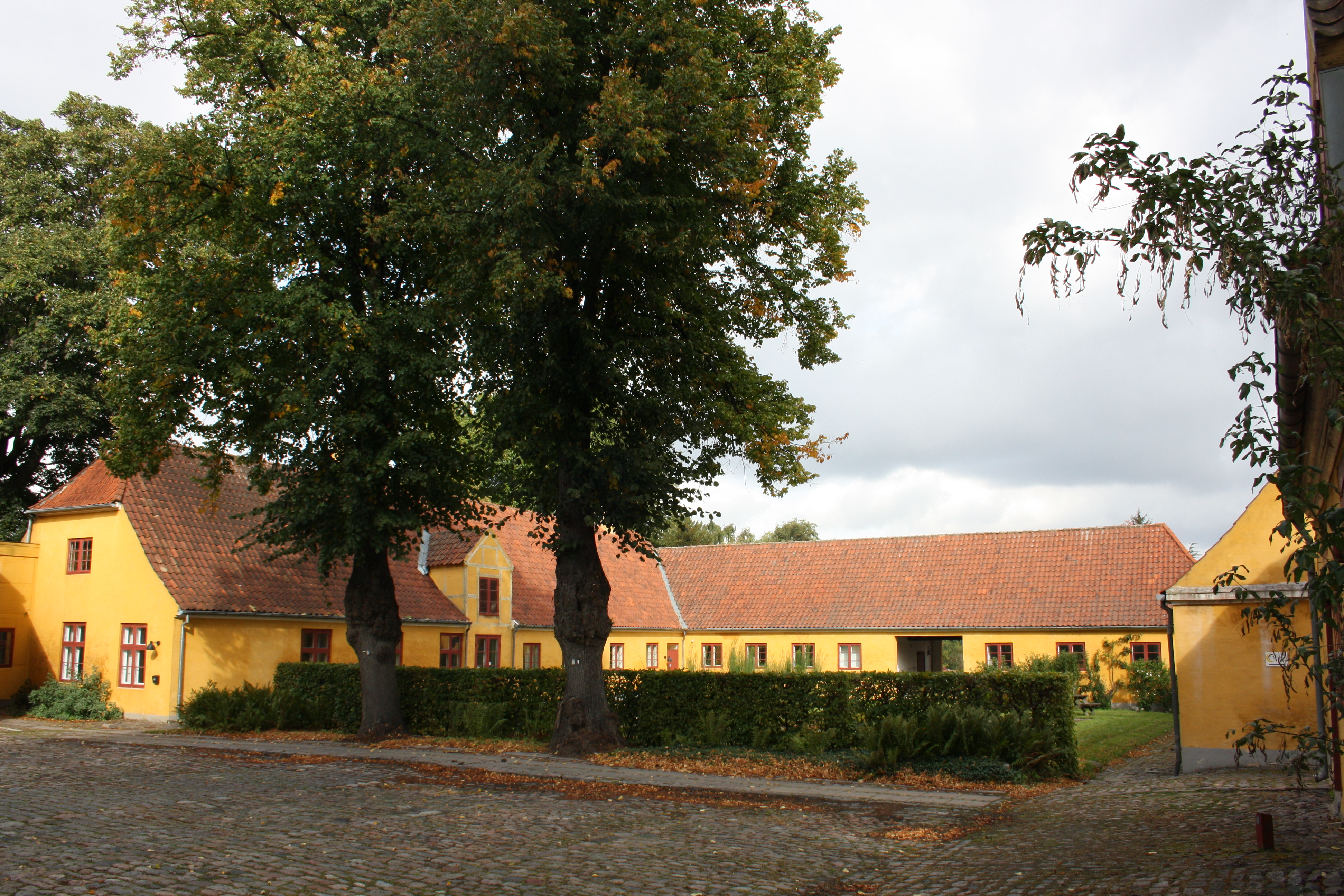 Rolighedsvej 21